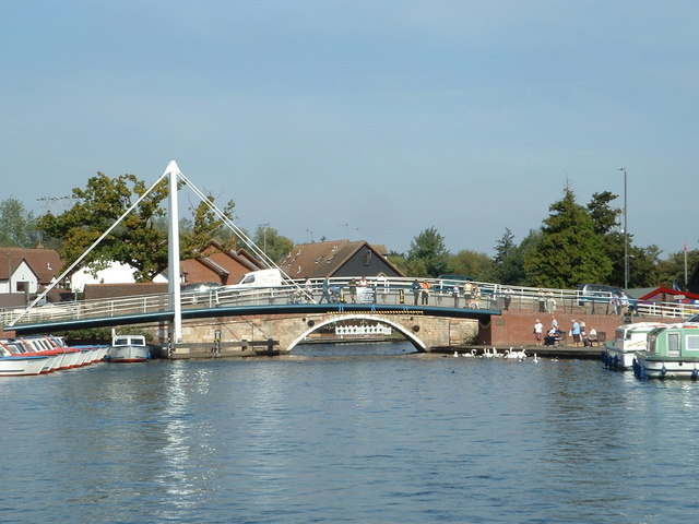 Wroxham Bridge Navigate with care!